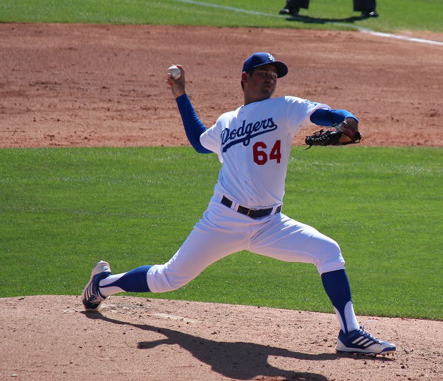 Zach Lee pitching for the Dodgers in spring training